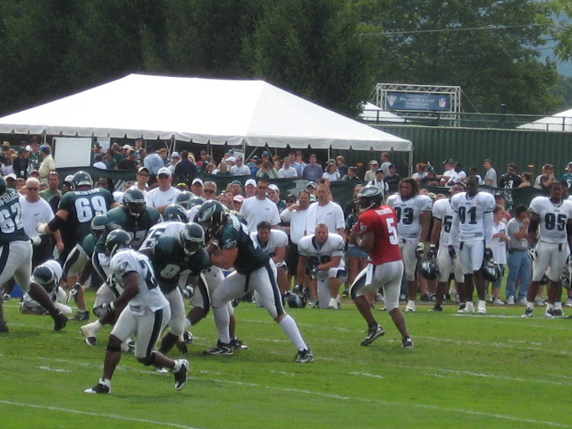 Philadelphia Eagles quarterback Donovan McNabb (#5) drops back to pass during training camp in August 2008. Also pictured: Jon Runyan (#69), Max Jean-Gilles (#62), Trevor Laws (#93), Chris Clemons (#91), Jerome McDougle (#95), and Juqua Parker (#75).